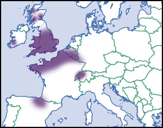 Oxychilus navarricus (Bourguignat, 1870). Distribution in Europe, scientific state of knowledge of 2012. Source description in English. Light colour indicated rare occurrences or regions where the species could eventually be expected to occur. Dark colour indicated relatively reliable occurrences, as well as regions where the species was expected to occur, and where the species was not known to be extremely rare. Dark colour indications were not necessarily based on published records. Species summary in AnimalBase